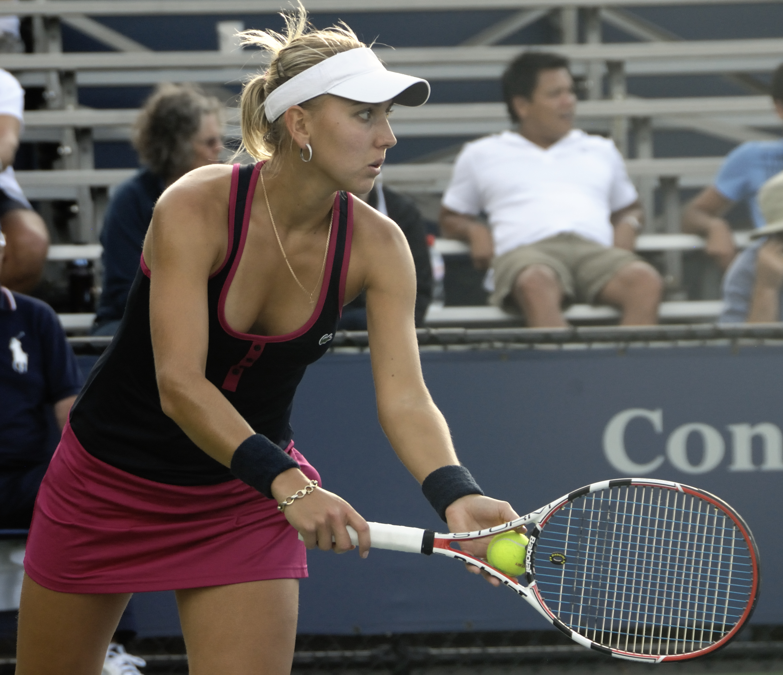 Elena Vesnina at the 2009 US Open